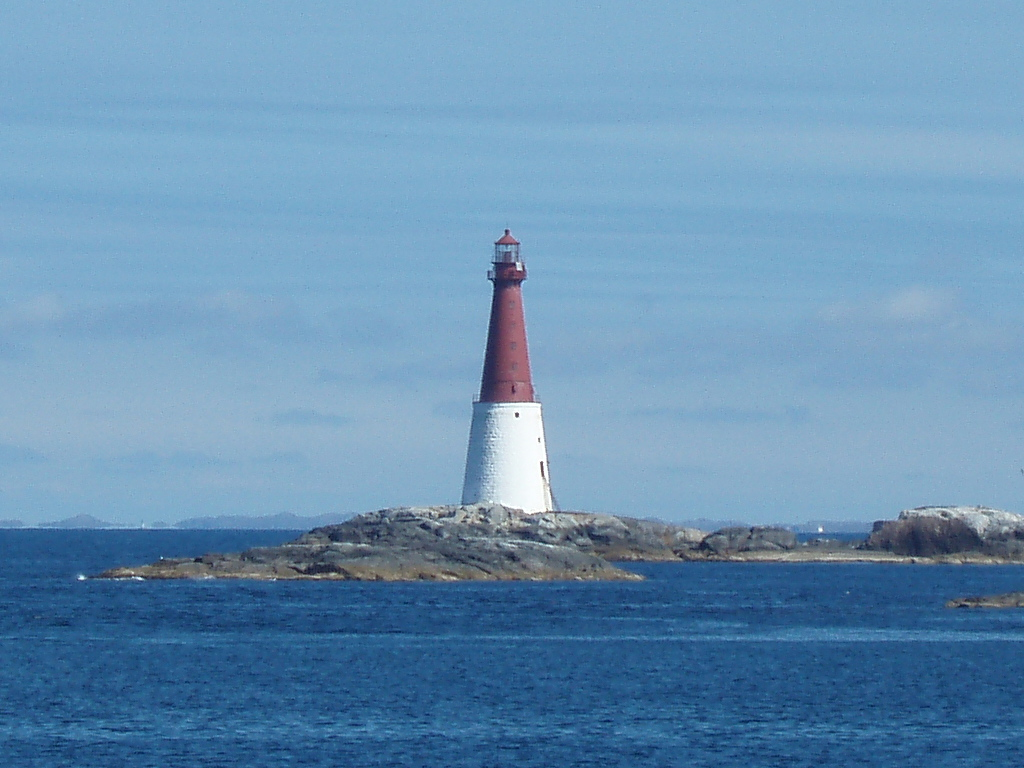 Grip Lighthouse in Kristiansund municipality in Møre og Romsdal county in Norway. The lighthouse was automated in and unmanned from 1977.